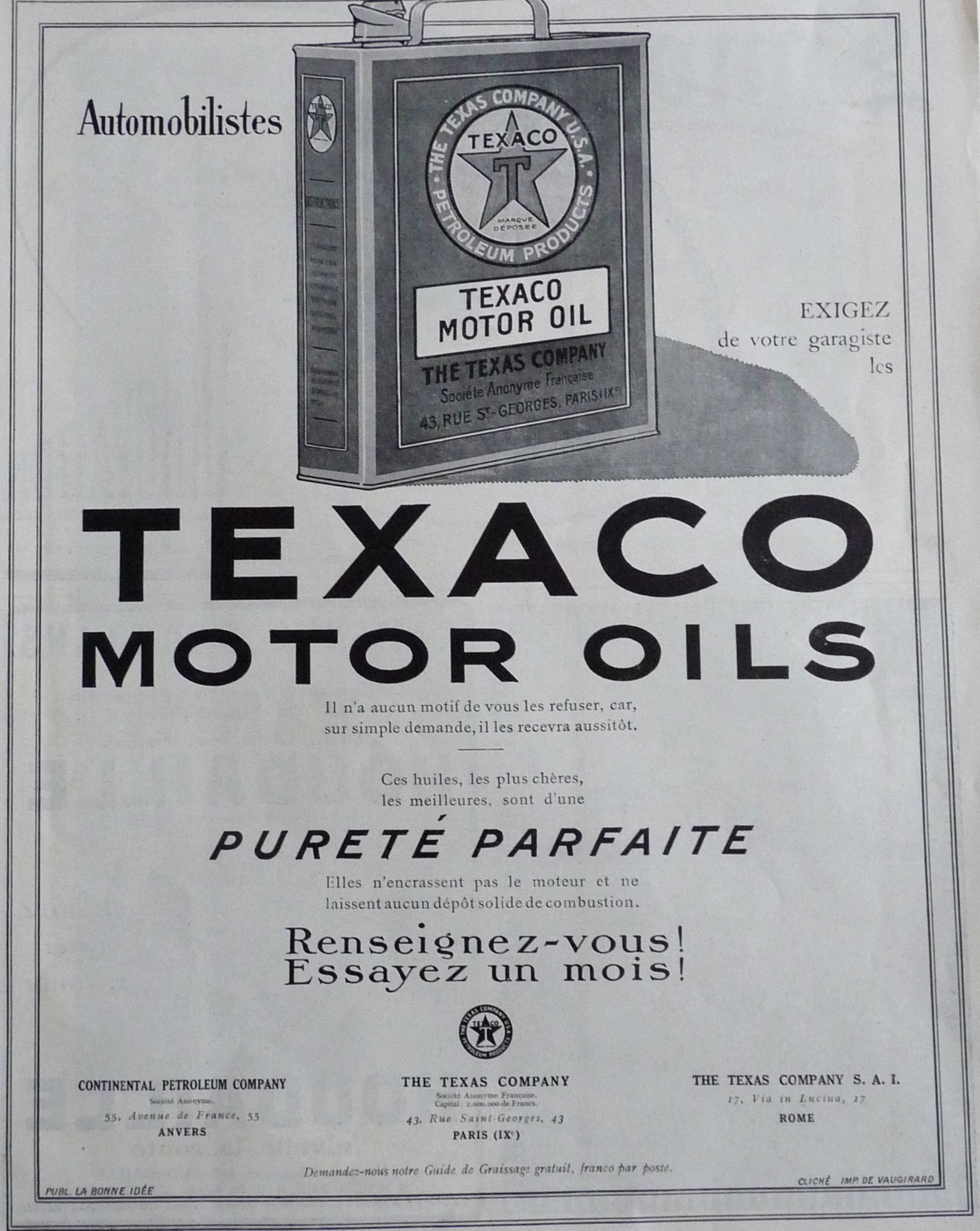 Texaco advertisement of 1924